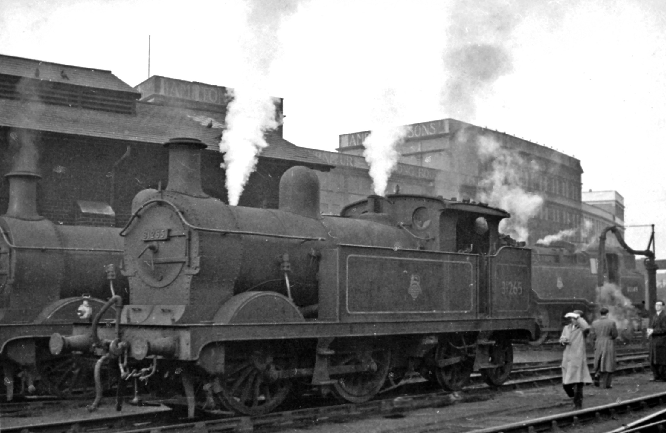 Ex-SE&C 0-4-4T at Stewarts Lane Locomotive Depot. On the occasion of an RCTS visit, ex-SE&C Wainwright H class 0-4-4T No. 31265 (built 5/1905, withdrawn 8/60) is beside another of the same class, employed mainly on empty stock work to Victoria; beyond is a BR Standard 2-6-4T.